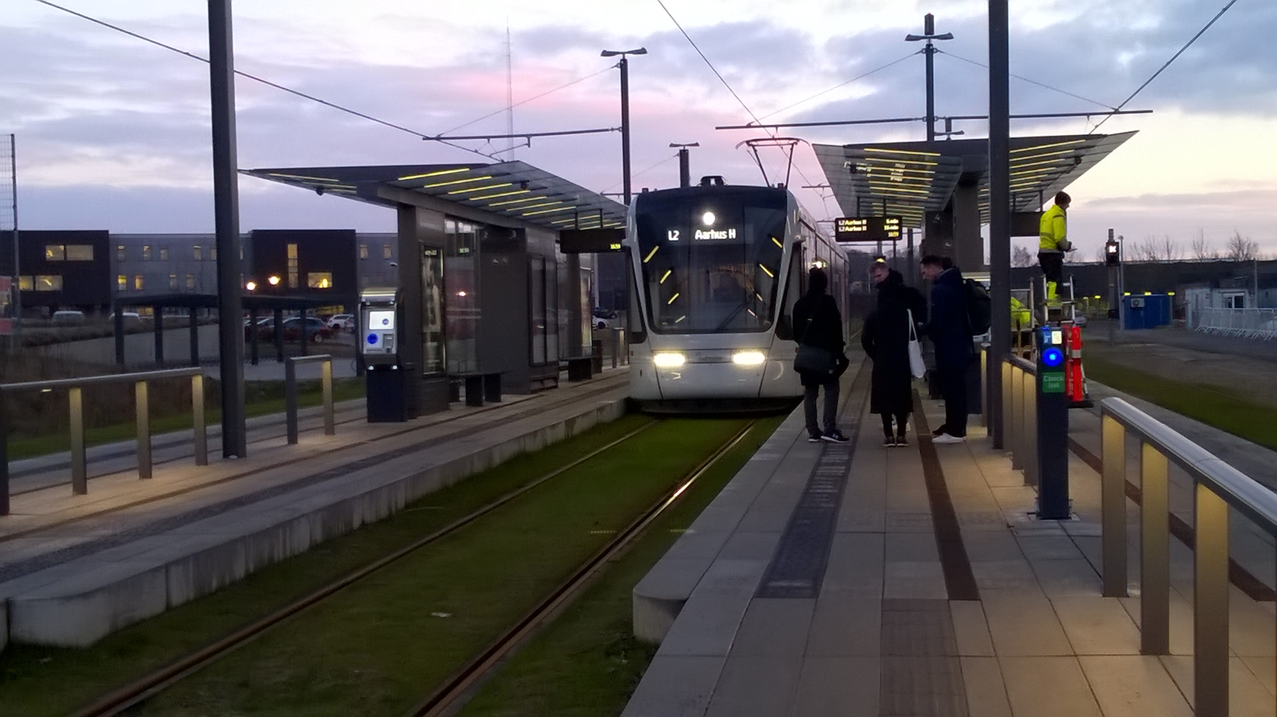 Aarhus Universitetshospital Station.